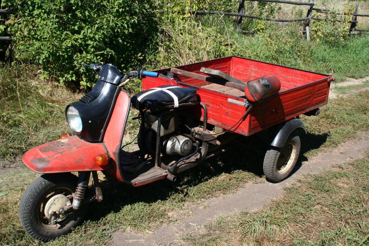 Russian cargo scooter Muravey 2M 01